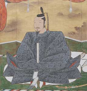 加藤清正像 かとうきよまさ ぞう 江戸時代・17世紀 熊本・本妙寺蔵 加藤清正(1562〜1611) 肥後の大名。武勲派の豊臣大名として肥後北部を治める。関ヶ原合戦で徳川方として武功をあげ、 肥後一国を治め、熊本藩54万石の基礎を築いた。